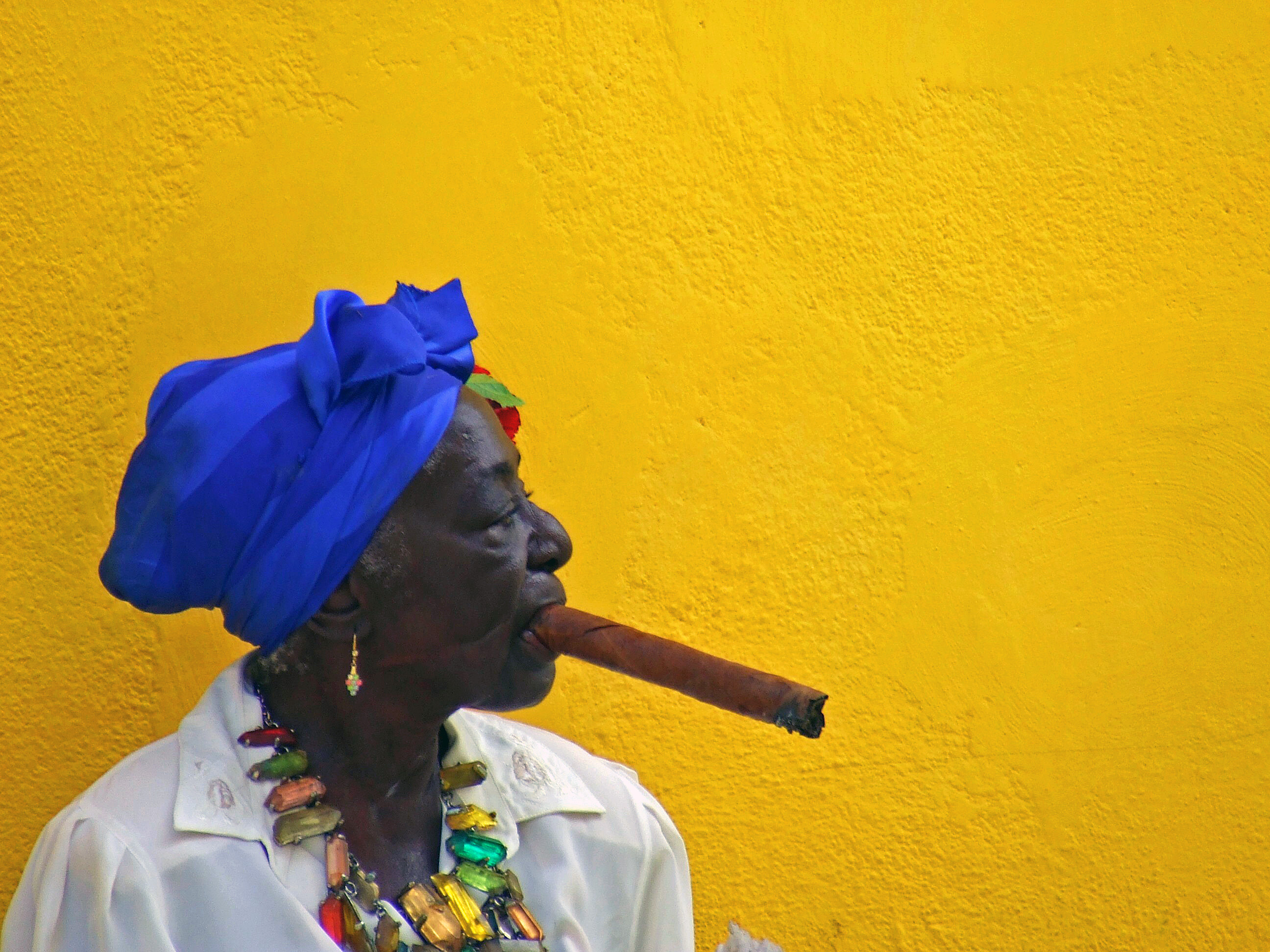 A lady smokes her cigar in the Vieja district of Havana, Cuba